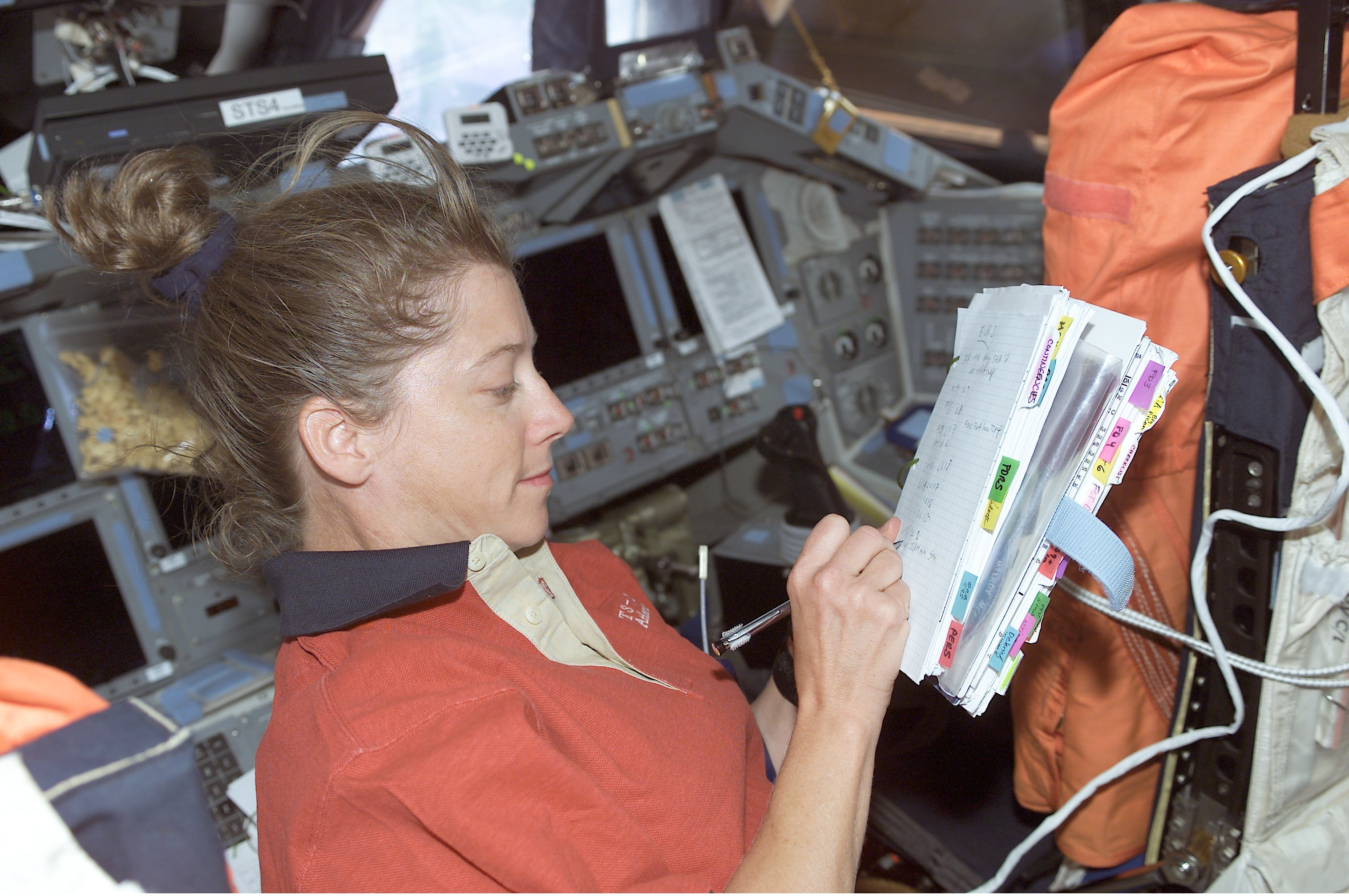 Astronaut Pamela A. Melroy, STS-112 pilot, looks over a procedures checklist on the flight deck of the Space Shuttle Atlantis.